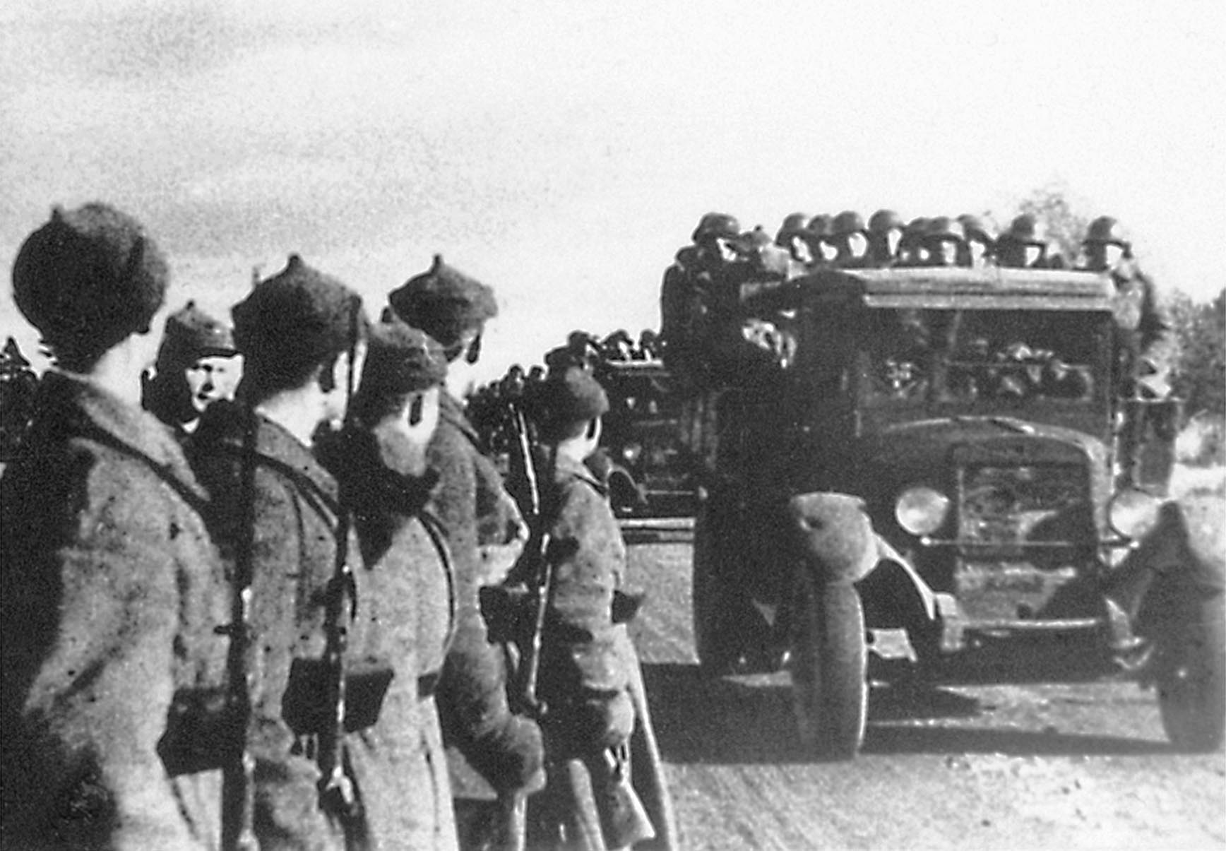 Red Army troops entering into Estonia on 18 October 1939, after Soviet Union had forced Estonia to sign a treaty allowing Soviet bases on its territory